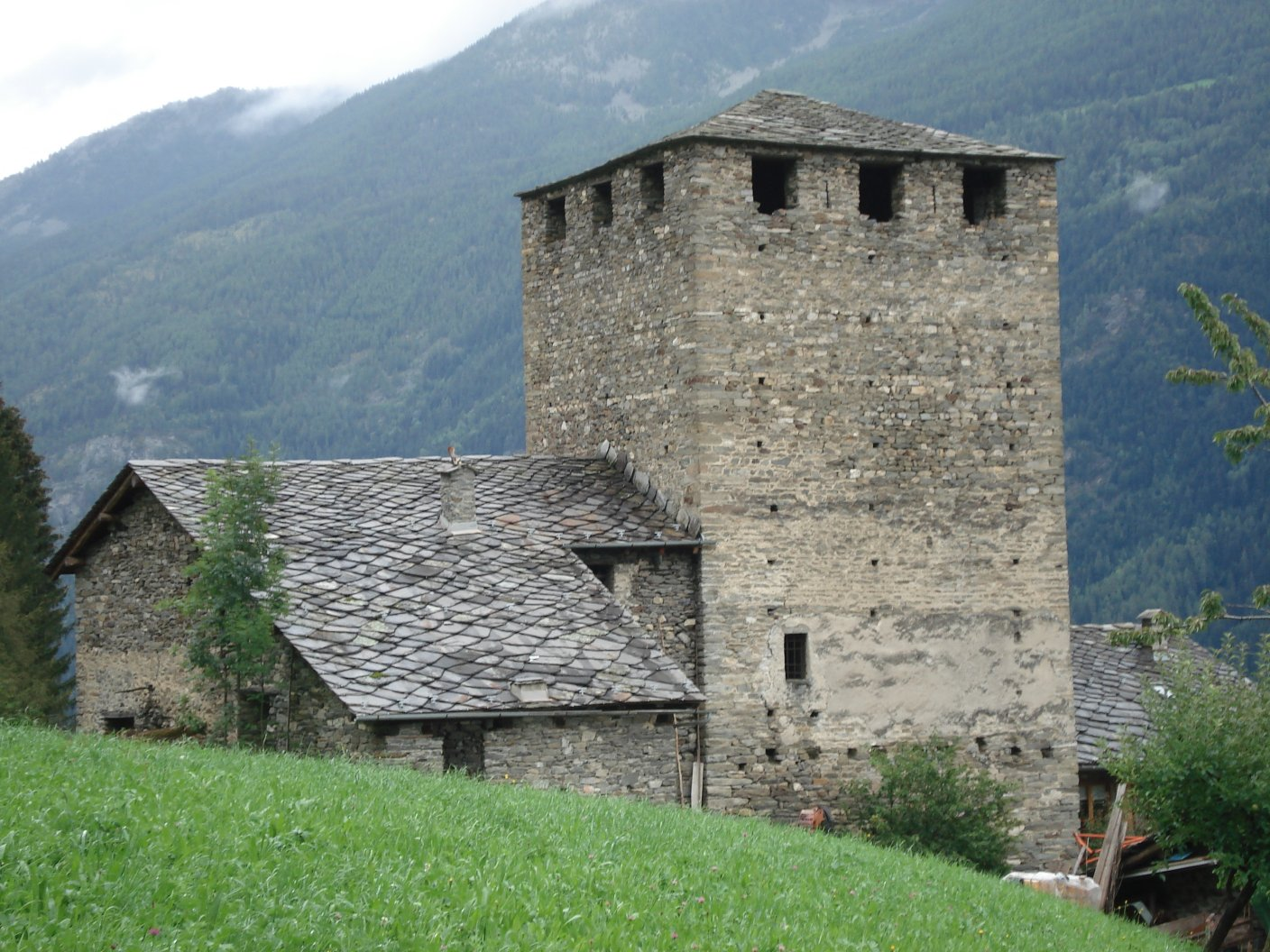 Ecours castle in La Salle in Aosta Valley